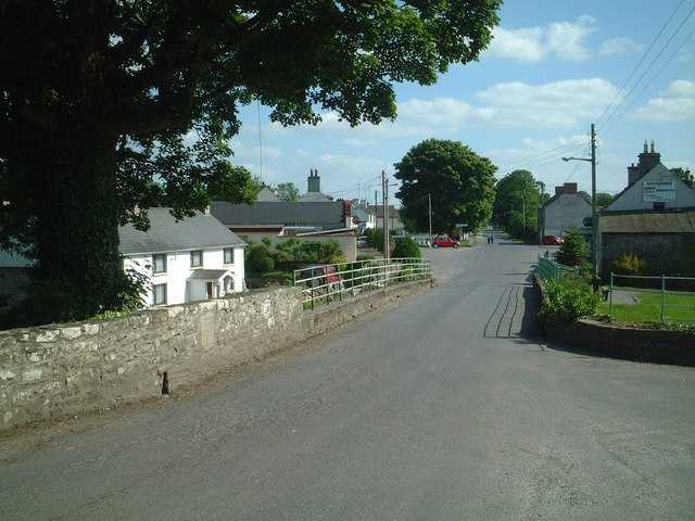 Kilmainhamwood, Co. Meath Village of Kilmainhamwood, viewed from bridge over Kilmainham River